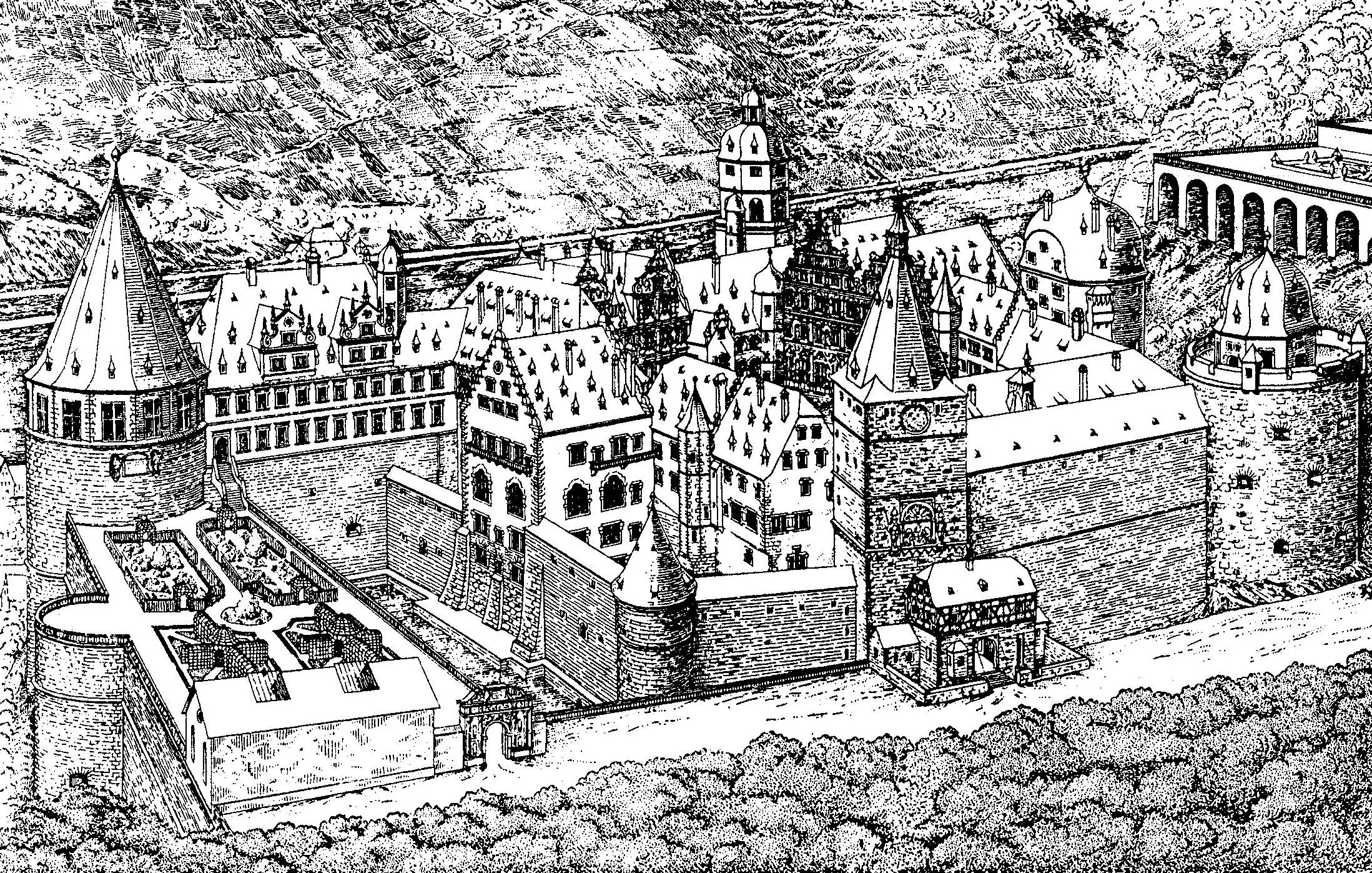 historic views of Heidelberg, Germany